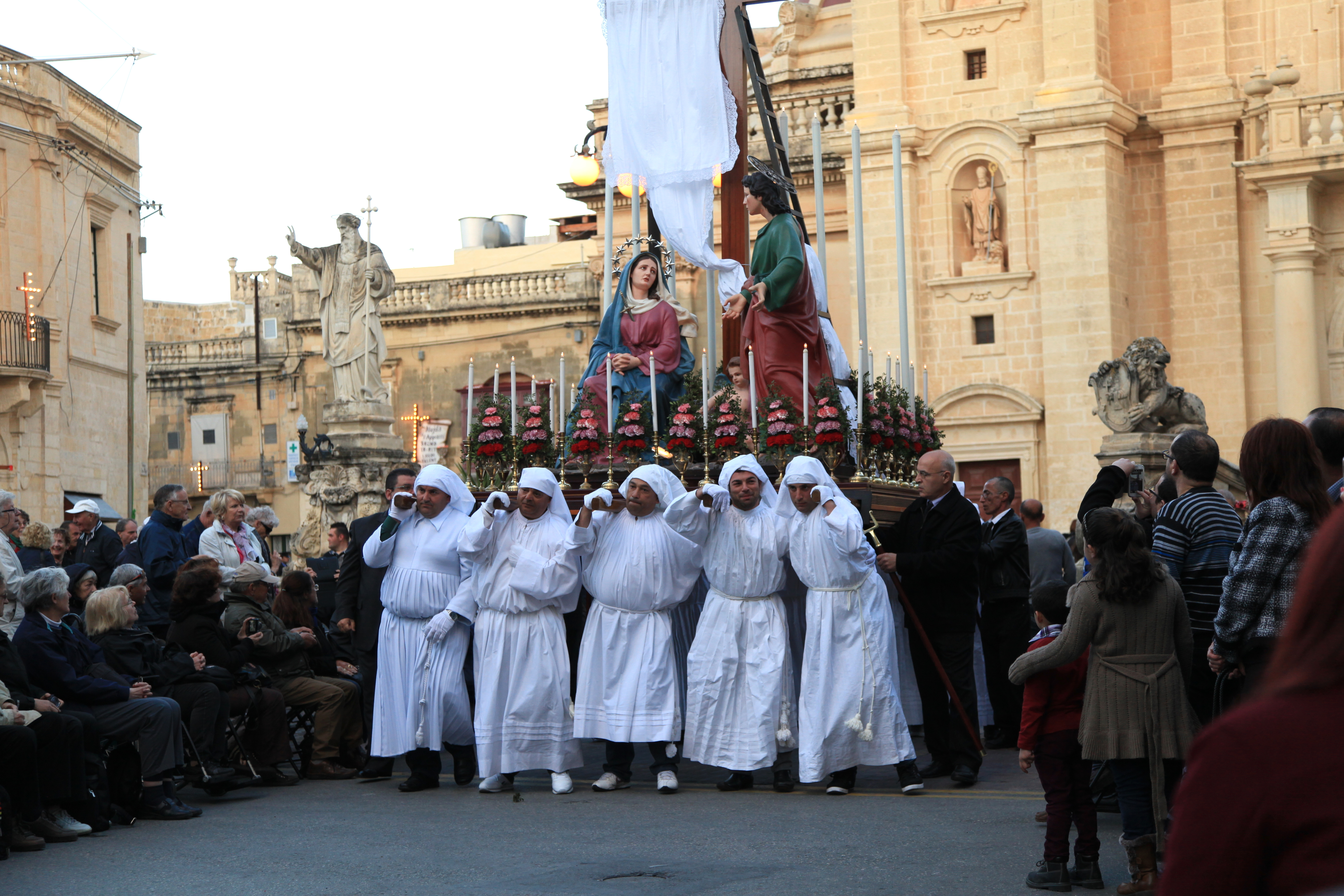 2014 Good Friday procession, Misraħ San Filep in Żebbuġ, Malta